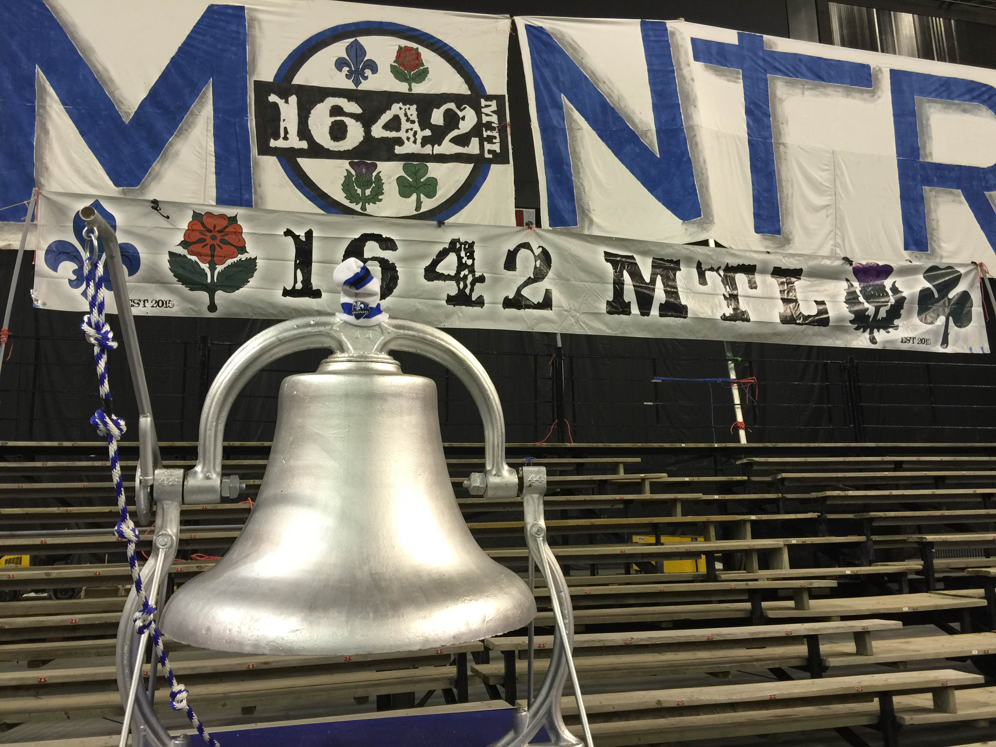 The North Star at the Olympic Stadium for the Montreal Impact's 2016 home opener against the New York Red Bulls